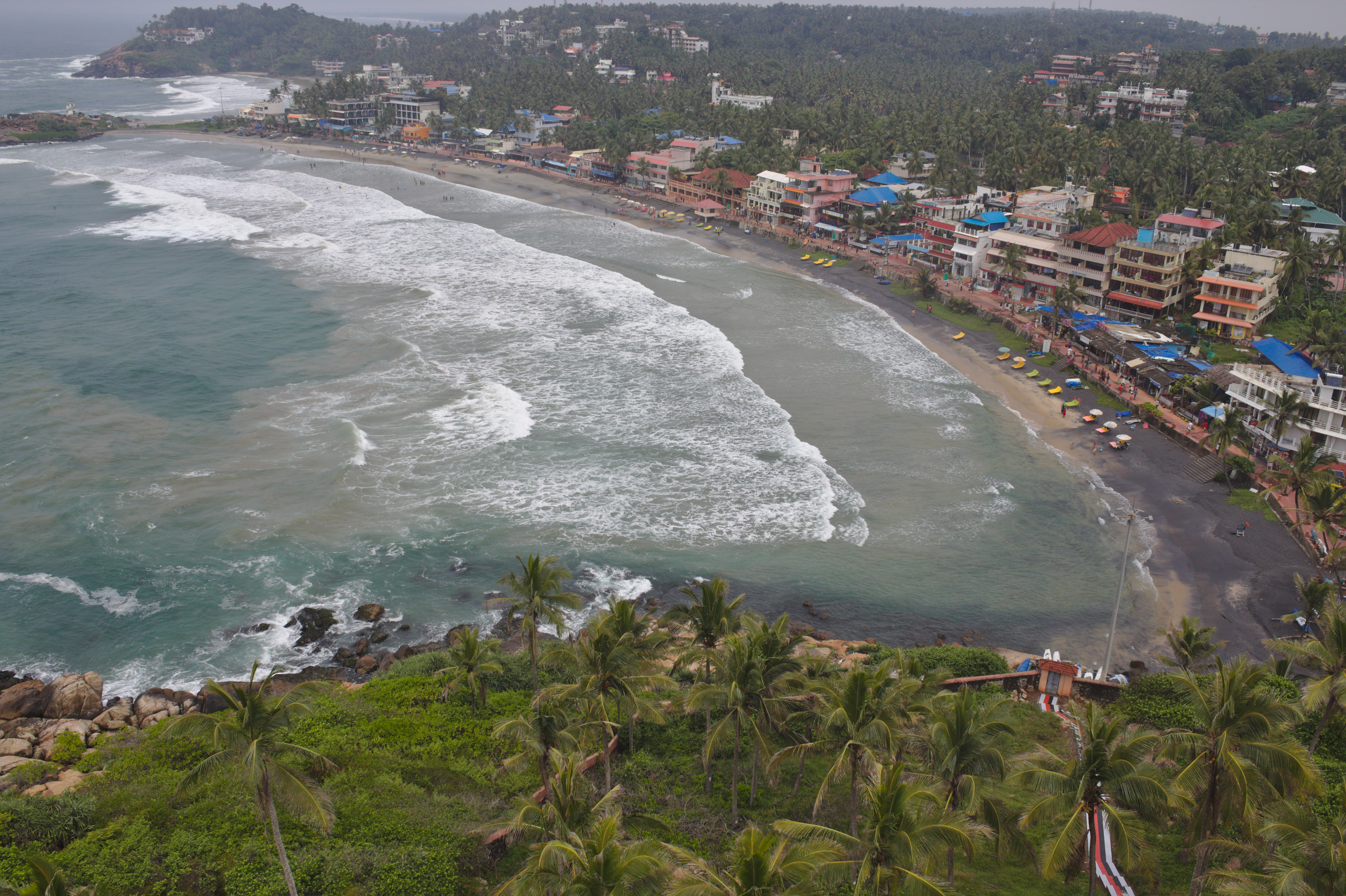 View at Kovalam Beach from Lighthouse, Thiruvananthaputam, Kerala, India